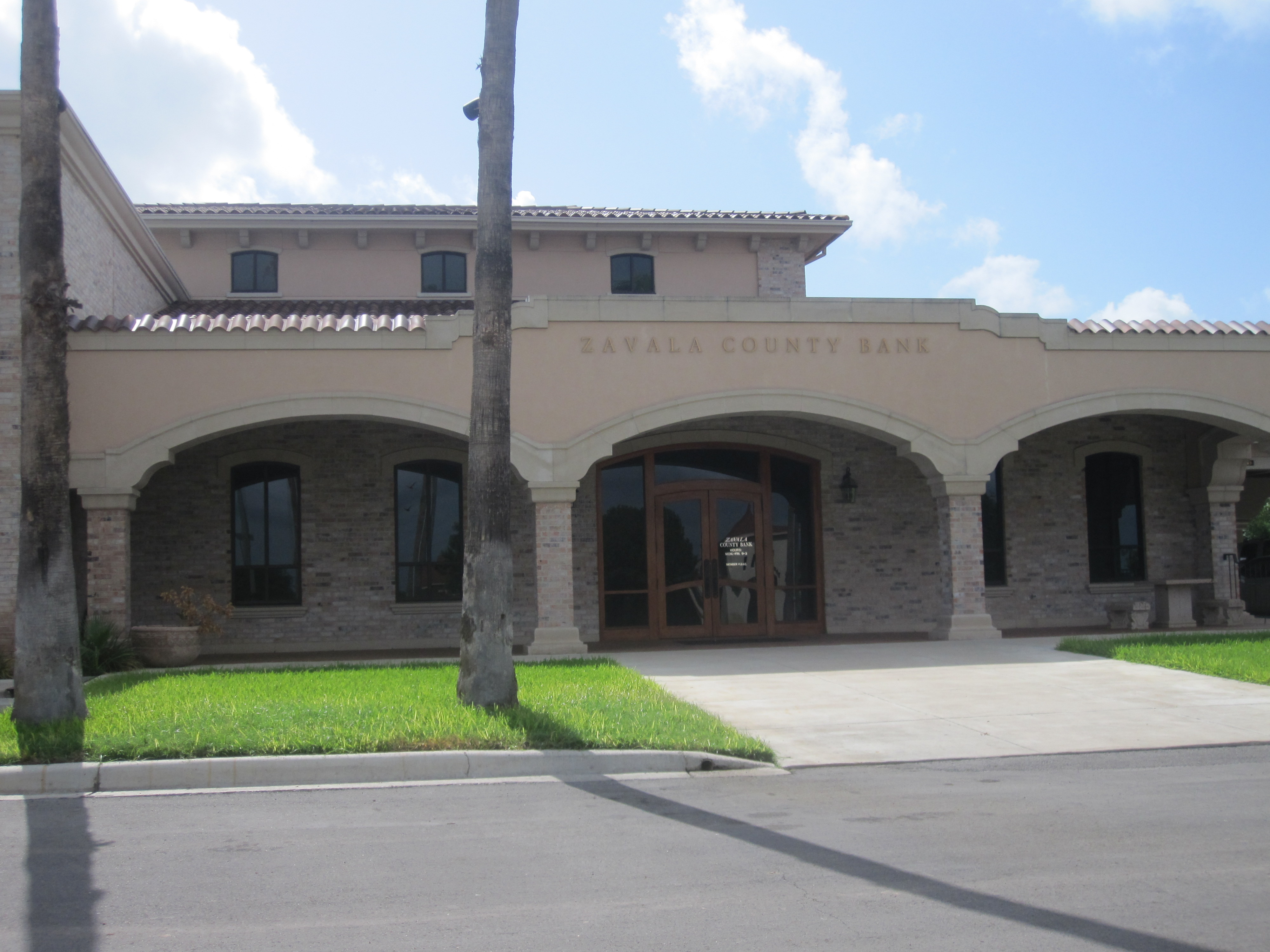 I took photo with Canon camera in Crystal City, TX.